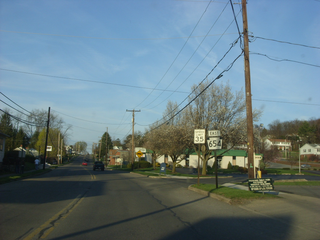 Duboistown, Pennsylvania, Euclid Ave. on Pennsylvania State Route 654